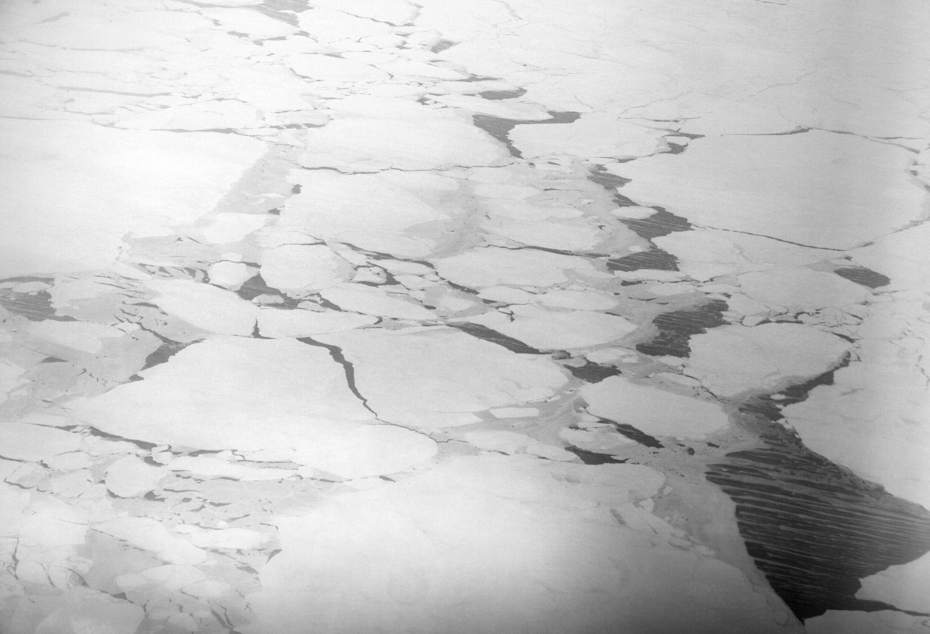 sea ice in the North Atlantic